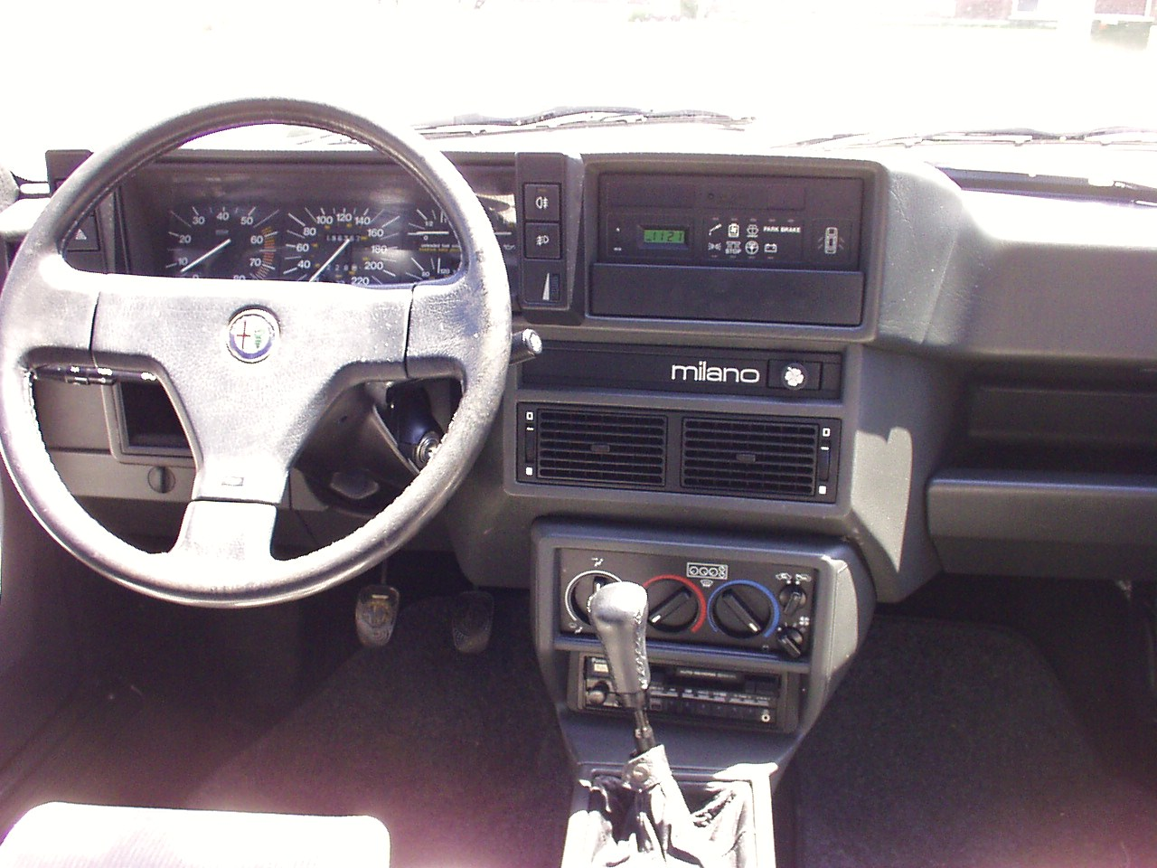 Alfa Romeo 75 Milano